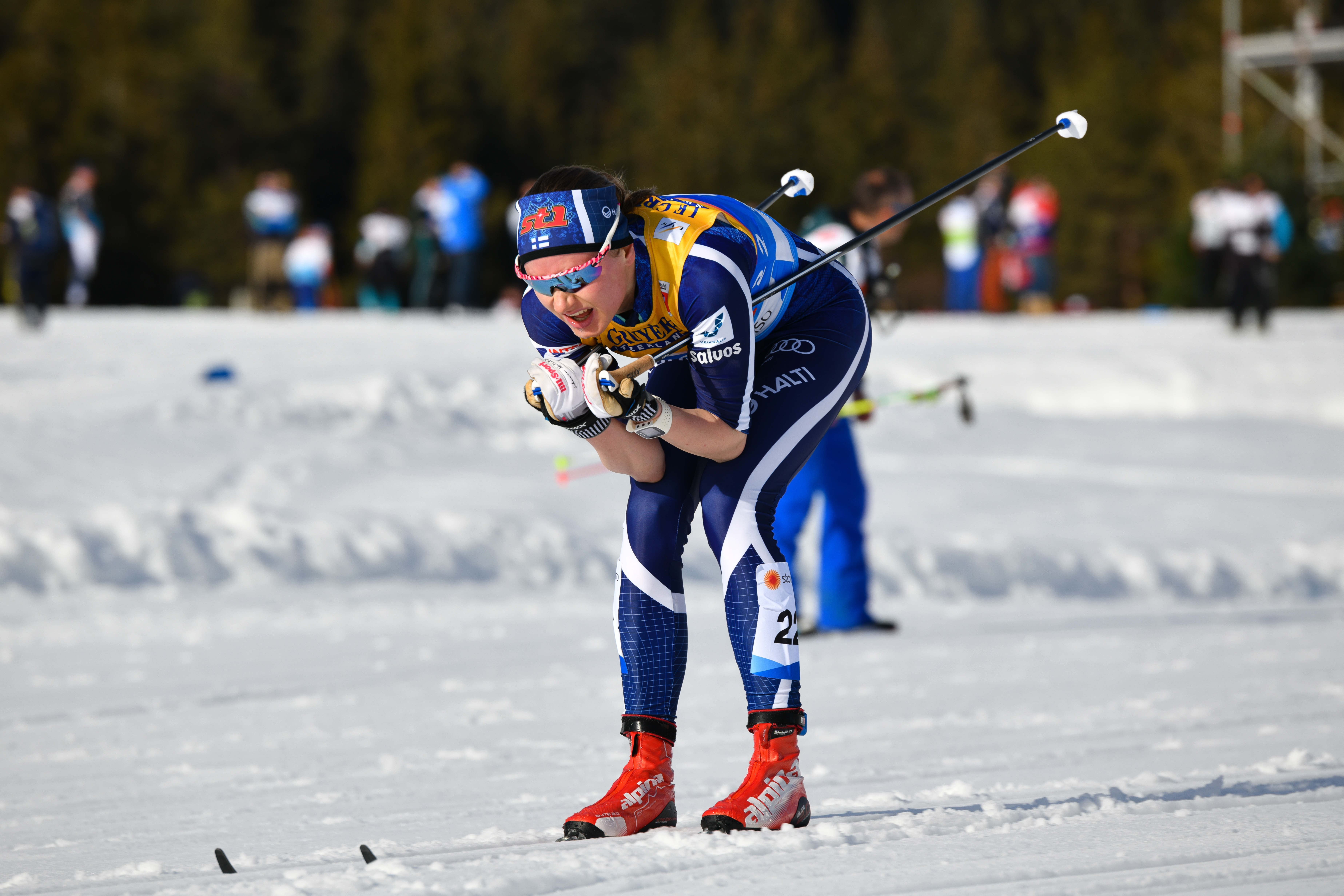 FIS Nordic Wolrd Ski Championships Seefeld 2019 - Ladies Cross Country 10km. Picture shows Johanna Matintalo (FIN).